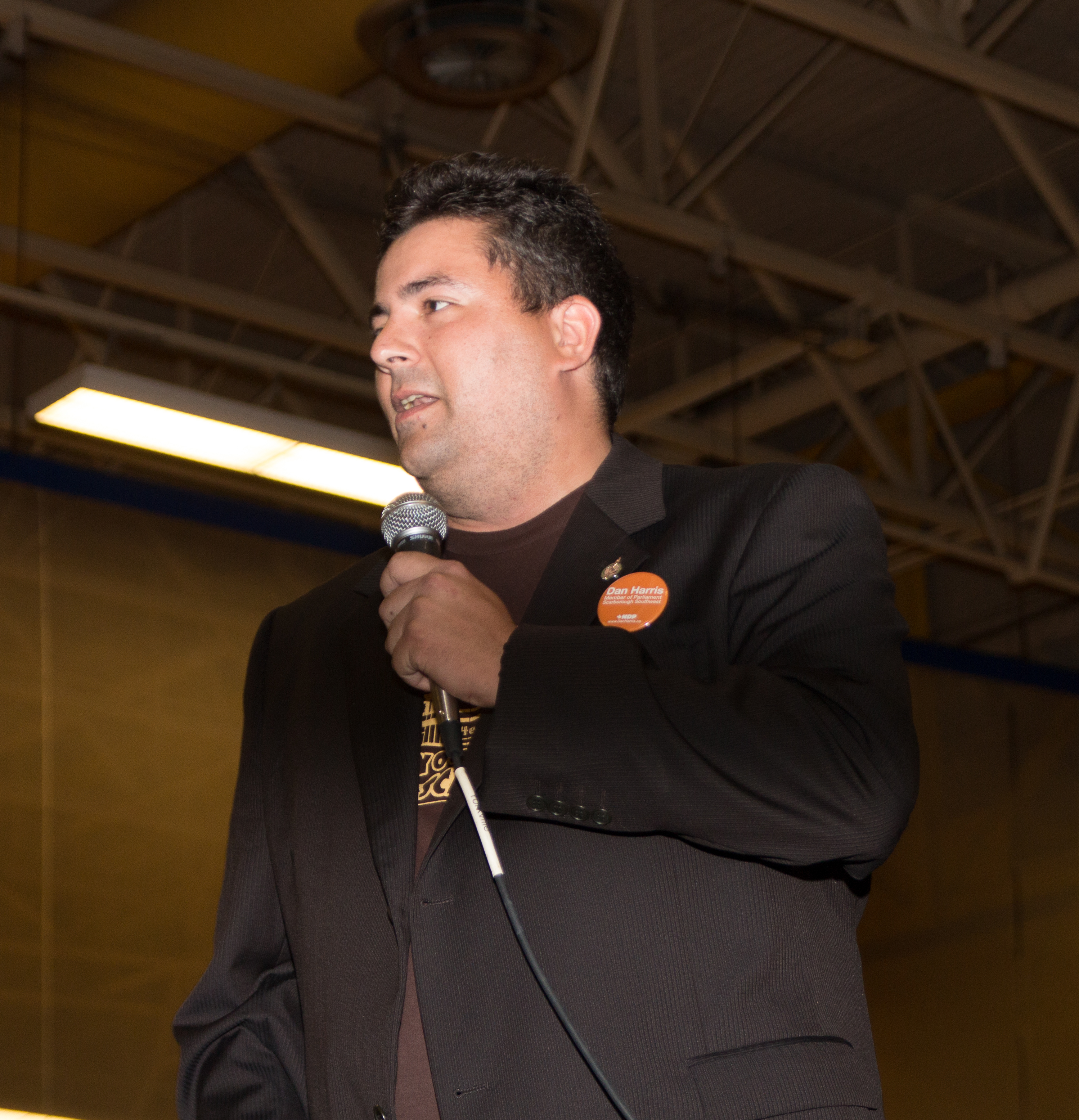 NDP Member of Parliament Dan Harris at a Squared Circle Wrestling show at the Variety Village in Toronto